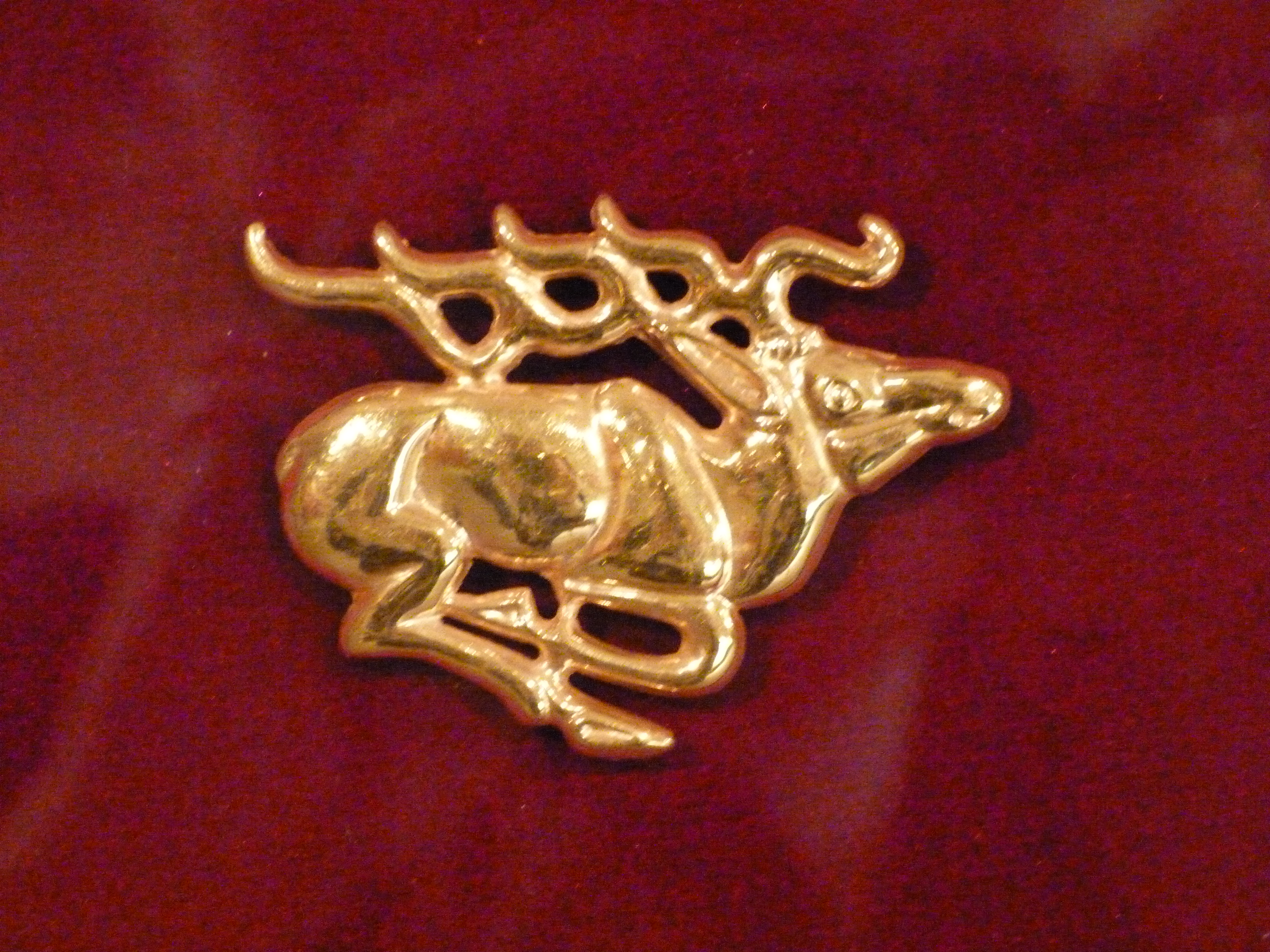 Empire of the Sun. Scytians ! Great, honorable men ! Remember the beginning of your way ! Live on the 13th of November, 2012, Budapest, VAM Design Center. Published under Creative Commons in the Metapolisz DVD line. All of the photos and vids in the Metapolisz DVD line are under Creative Commons and can be used even for commercial - for profit - purposes. Recommended citation: Derzsi Elekes Andor: Metapolisz DVD line Sources: Сенсационной называют свою находку археологи, обнаружившие в Карагандинской области «золотого человека» Sun emperor File:Sun_emperor.JPG Még mindig tagadnunk kell? Szkíta „aranyembert” találtak a kazah régészek A szkíta Napherceg Szkíta kincsekből nyílik egyedülálló kiállítás Budapesten: Badinyi-Jós Ferenc :a tatárlakai korong szövegének megfejtése: „Oltalmazónk! Minden titok dicső Nagyasszonya! Vigyázó két szemed óvjon, Napatyánk fényében!” Szathmáry megfejtése: „Egyetlen, magasztos Teljességünk leáldozóban, de Fény atyánk arca felemelkedik, ismét felragyog, s betölti dicsőségét!”